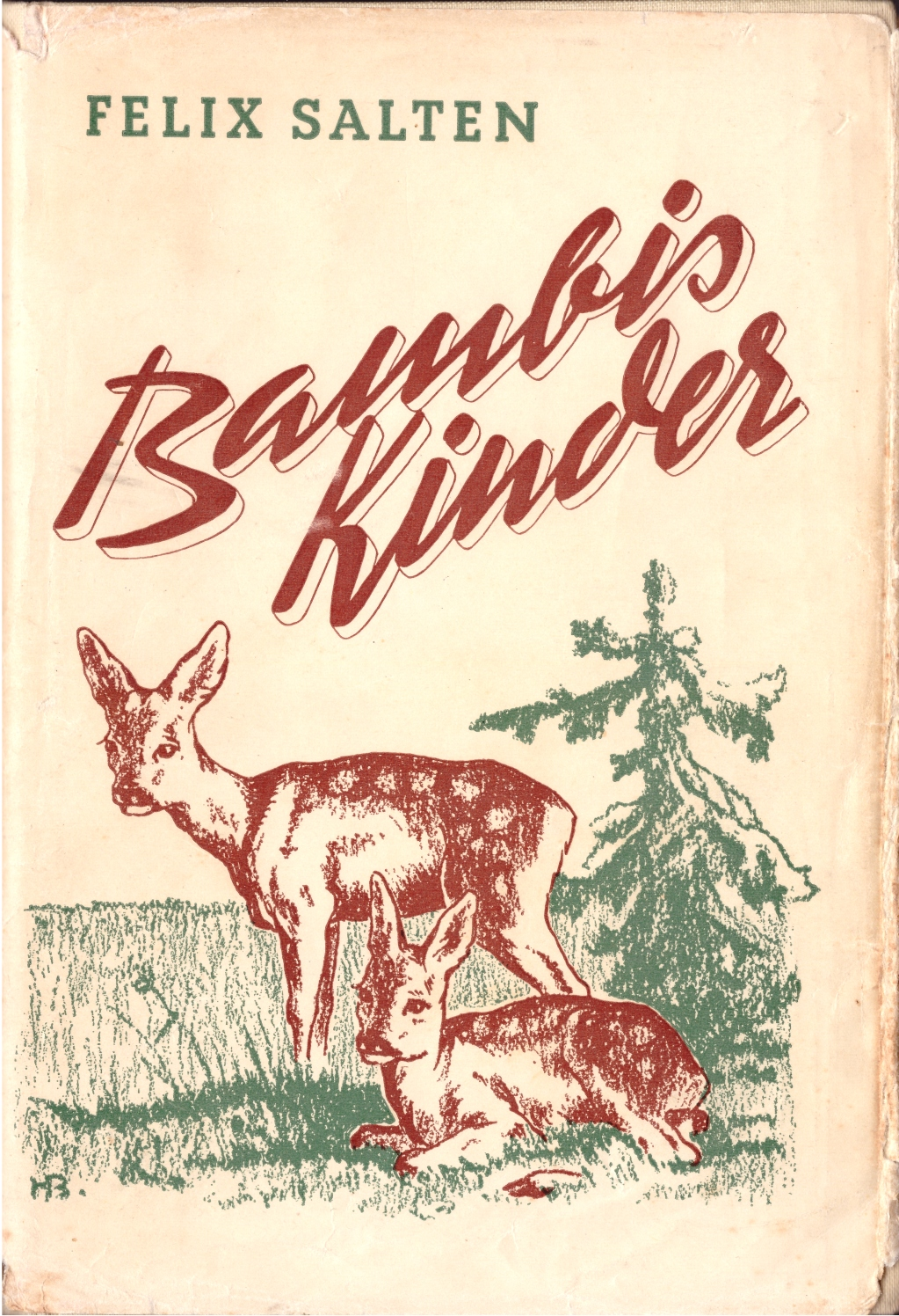 Cover art of the novel Bambis Kinder